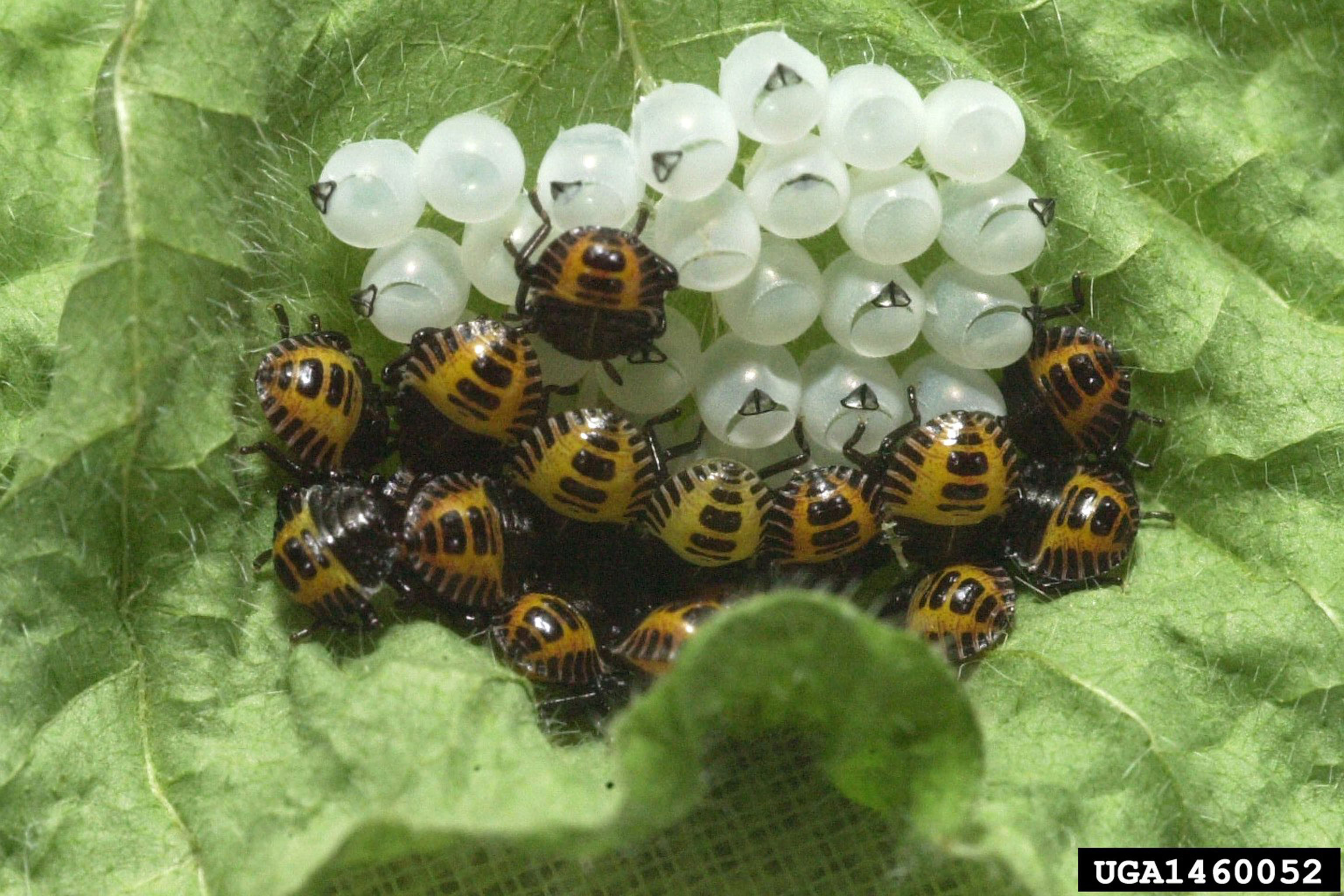 The bug is indigenous to Asia and is considered an agricultural pest in Japan. The insects have been found in trees and in houses, where they produce a pungent, malodorous chemical. The insect can be an agricultural pest, threatening apples, pears, peaches, figs, mulberries, citrus, persimmon and soybeans. It was found in Allentown, PA in October, 2001.